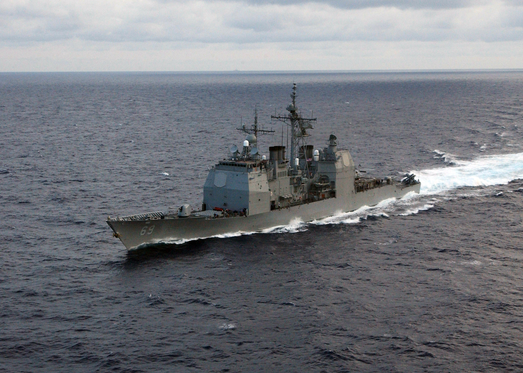 040611-N-4374S-009 Atlantic Ocean (Jun. 11, 2004) - The guided missile cruiser USS Vicksburg (CG 69) cruises the Atlantic Ocean preparing for an early underway replenishment with the fast combat support ship USS Seattle (AOE 3). Vicksburg and Seattle are part of the John F. Kennedy Carrier Strike Group, currently involved in a joint exercise, known as Combined Joint Task Force Exercise. The exercise allows all services and several countries to train the way they fight - in a joint environment. U.S. Navy photo by Photographer's Mate 2nd Class Michael Sandberg (RELEASED)